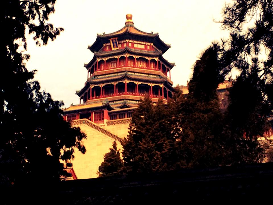 This is a view from the ground up of the Tower of Buddhist Incense at Summer Palace.